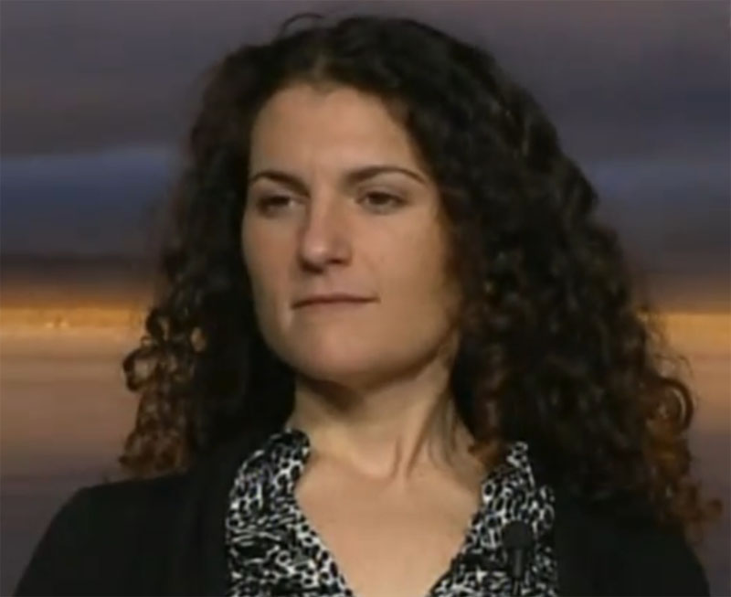 Image of Dr. Felisa Wolfe-Simon